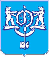 Yuzhno-Sakhalinsk, coat of arms